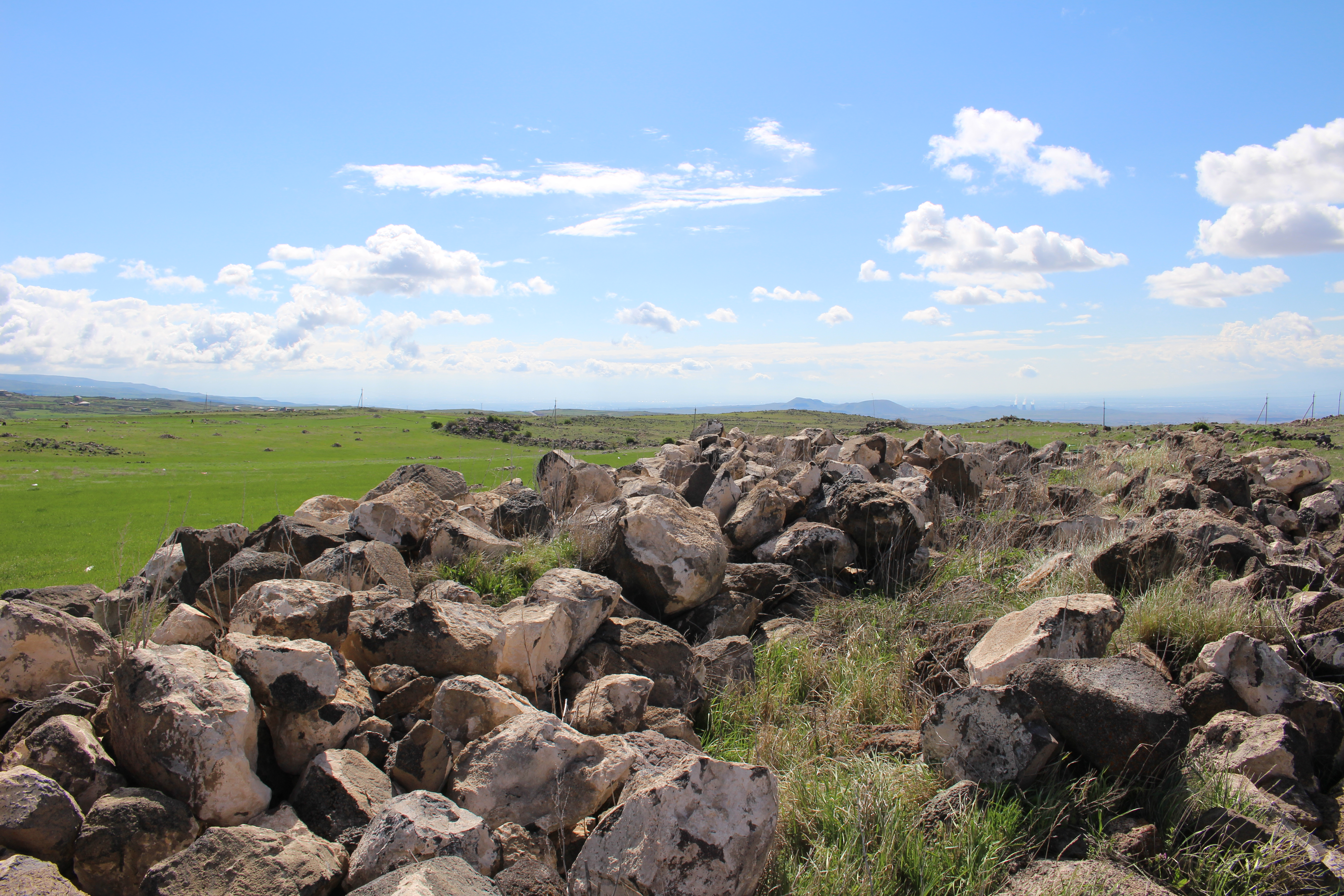 Unidentified location in Armenia.